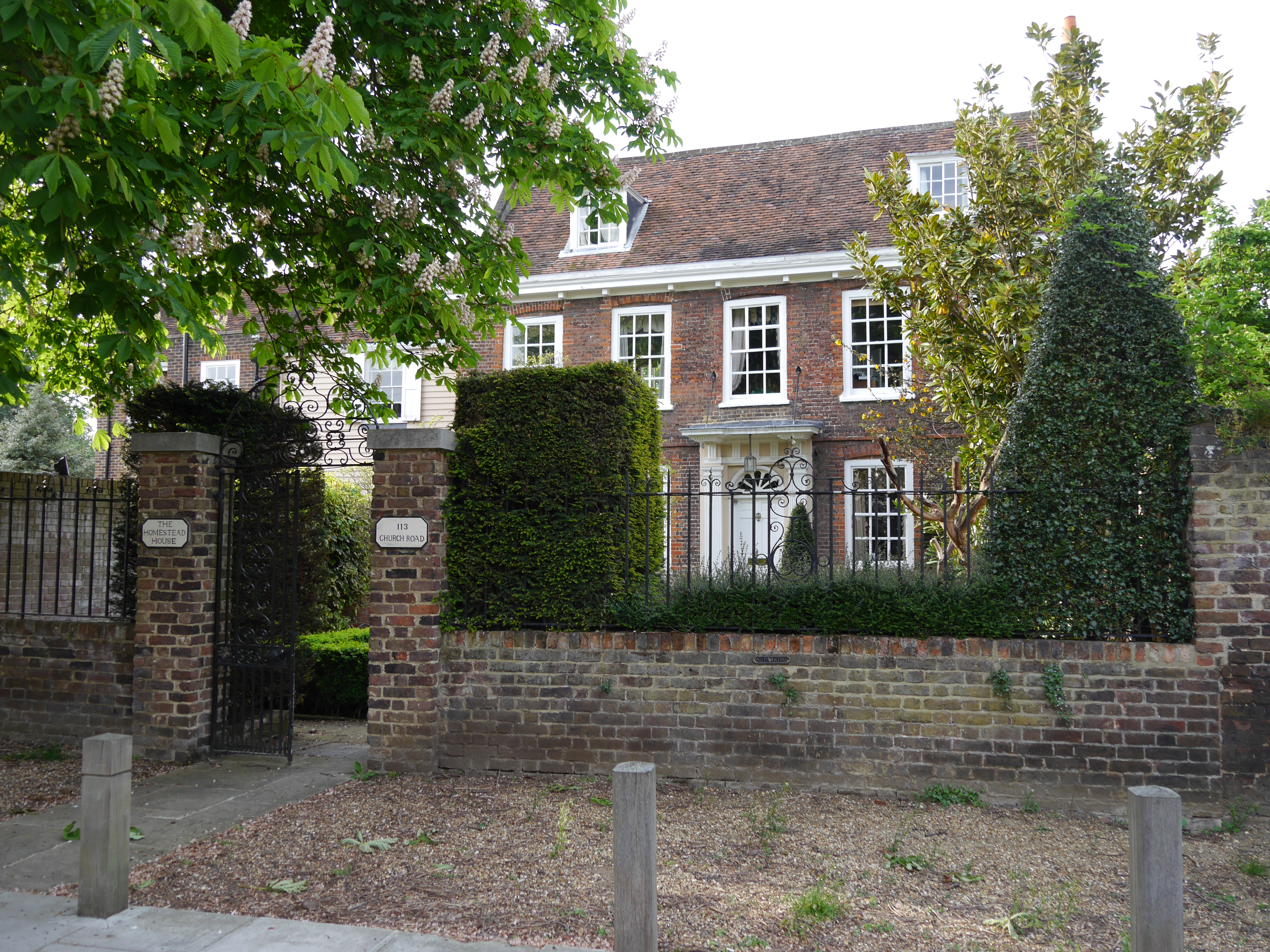 The Homestead, Barnes, April 2014